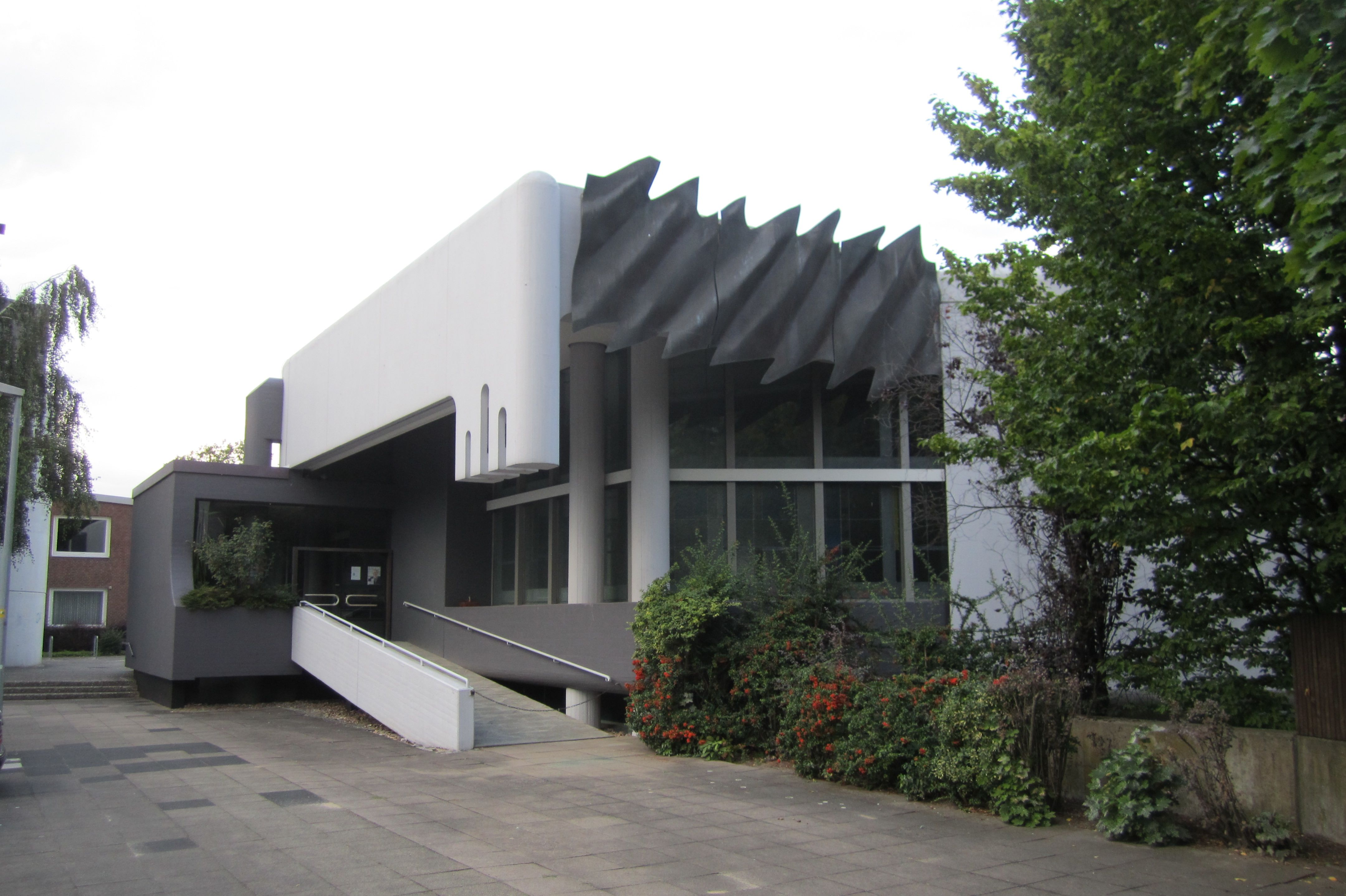 Entrace of the Heilig-Geist church in Hanover, Germany.